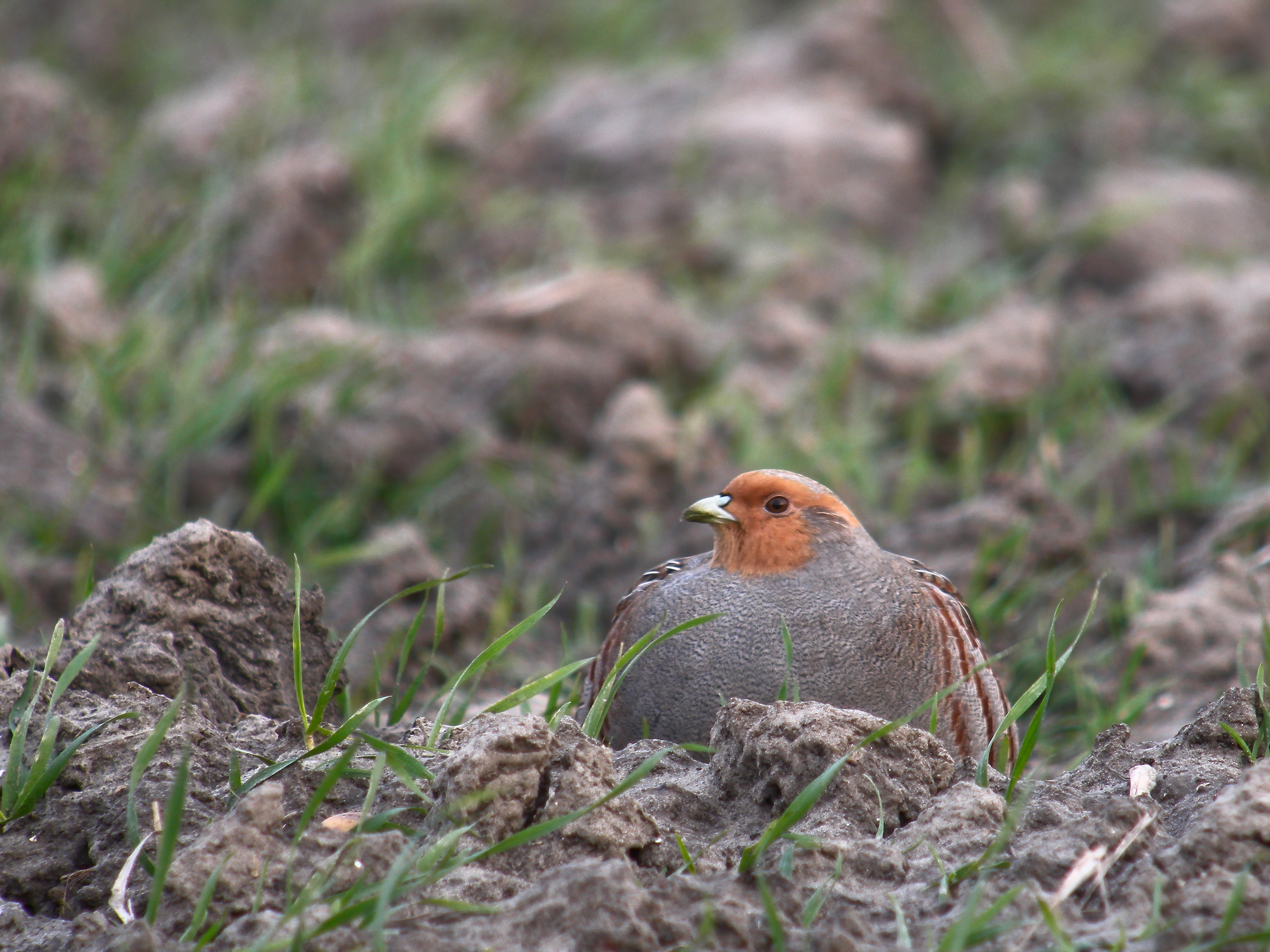 Grey Partridge Perdix perdix, Renesse, Netherlands